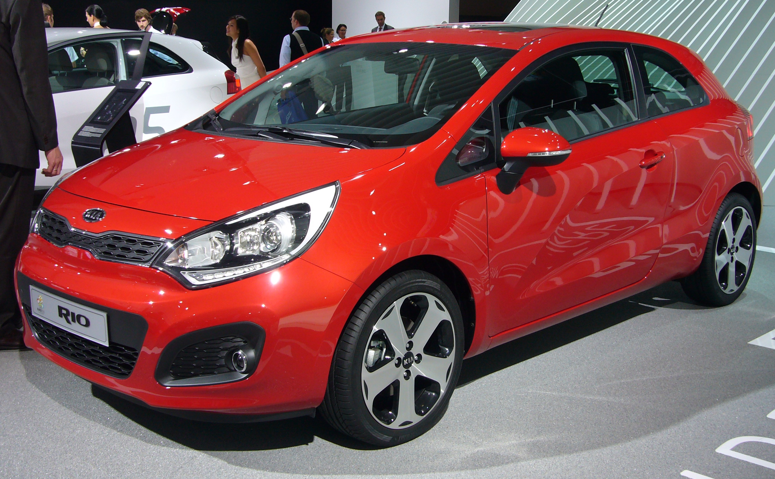 Kia Rio (UB) 3 door at IAA Frankfurt 2011